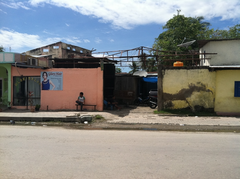 Av. Dr. António da Câmara in Acadiru Hun, Dili